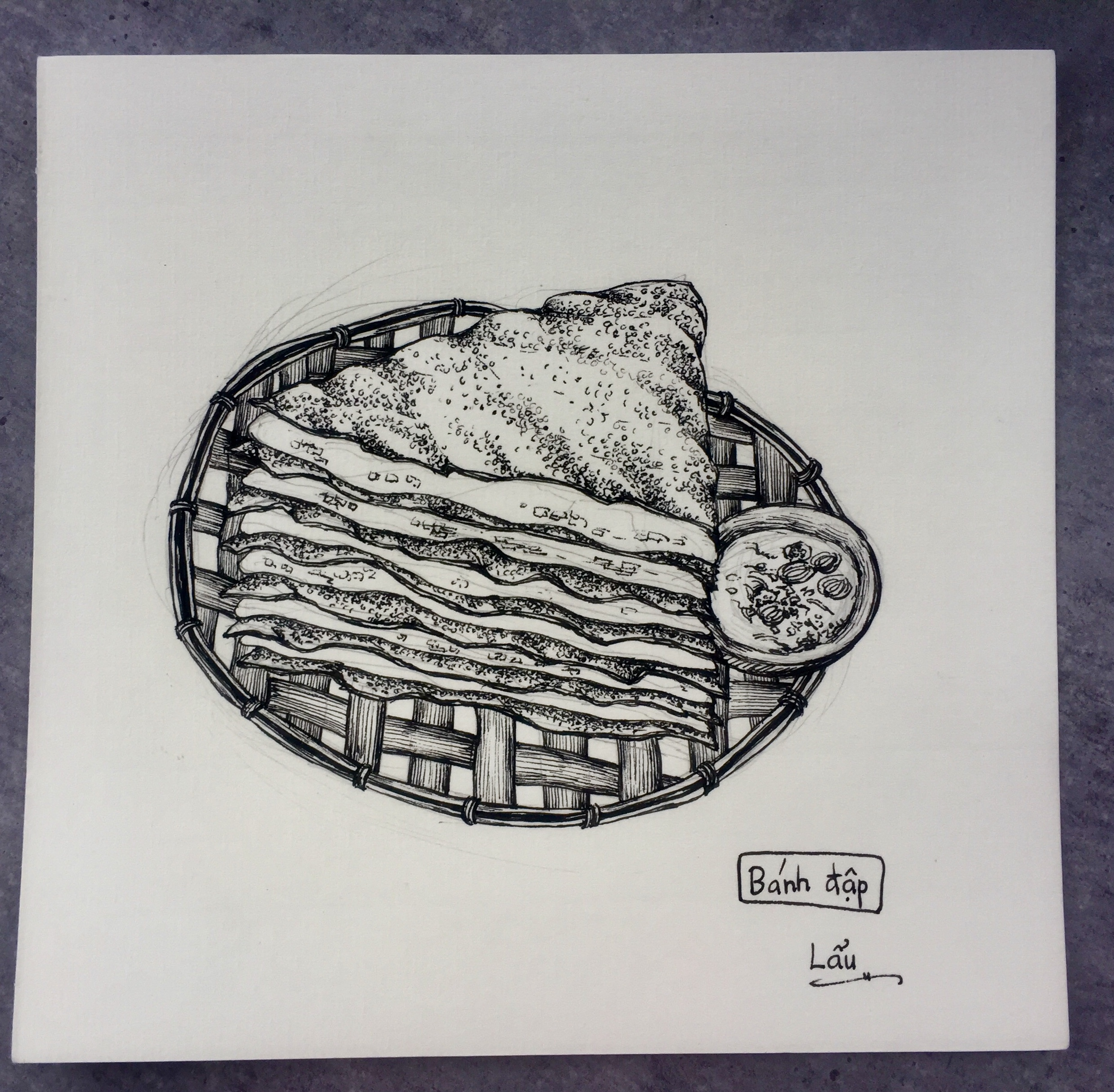 Banh dap